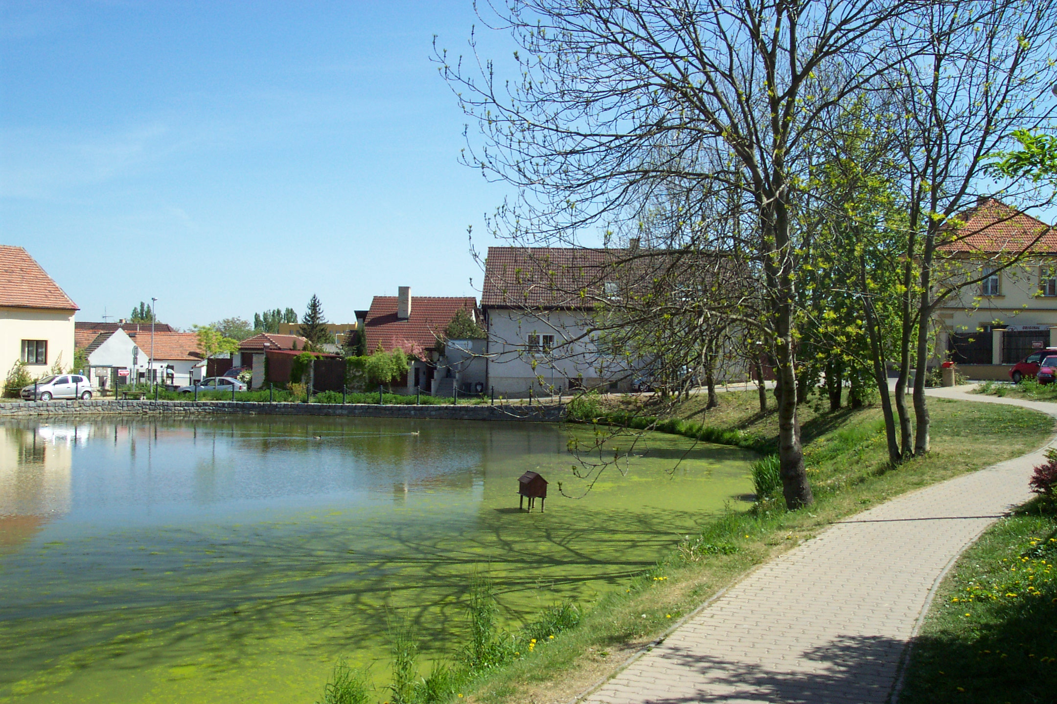 Rybník v centru Zličína v Praze